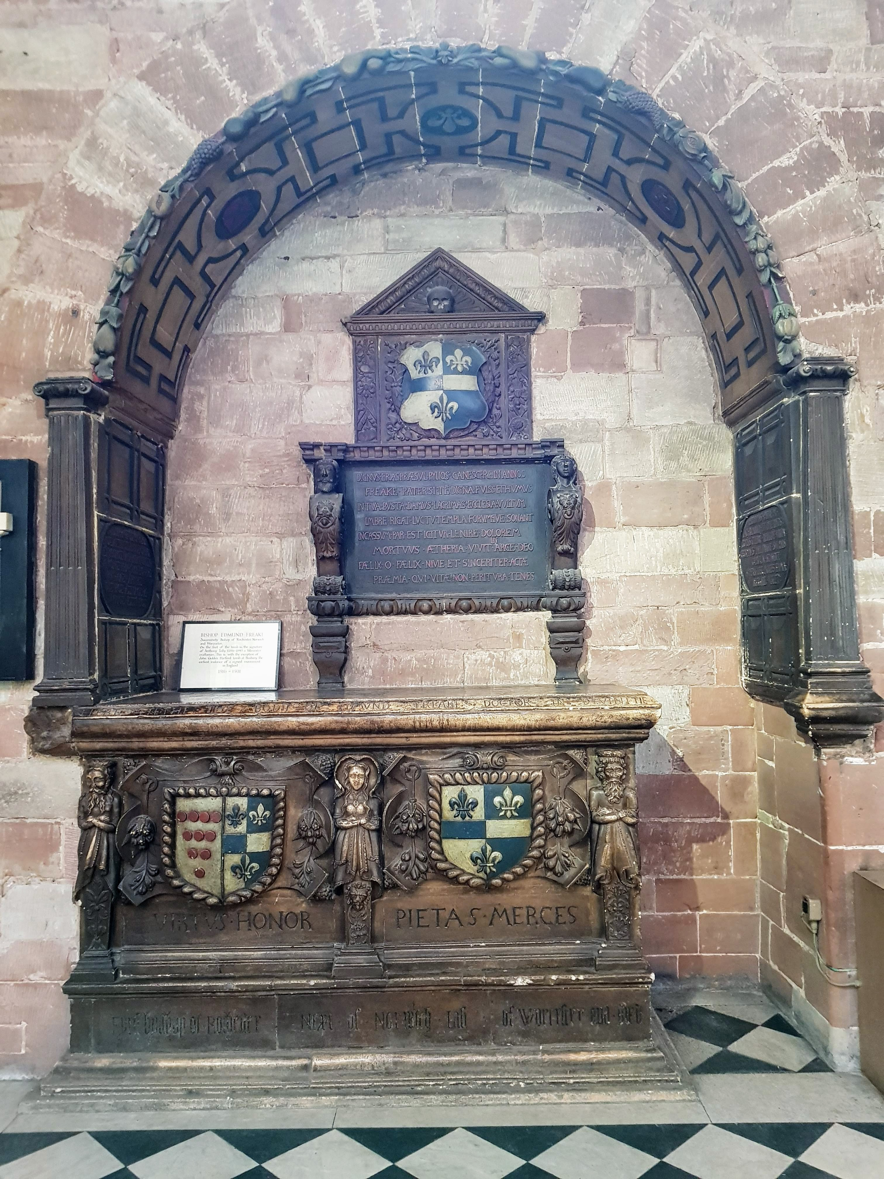 Worcester Cathedral, 11 Feb 2019. Tomb of Bishop Edmund Freke (c.1516–1591), Bishop of Worcester. Notice on the tomb says: Successively Bishop of Rochester, Norwich and Worcester. On the foot of the tomb is the signature of Anthony Tolly (1546-1594) a Worcester craftsman. This is, the the exception of John Guldo's Harford tomb at Bosbury, the earliest instance of a signed monument in England .